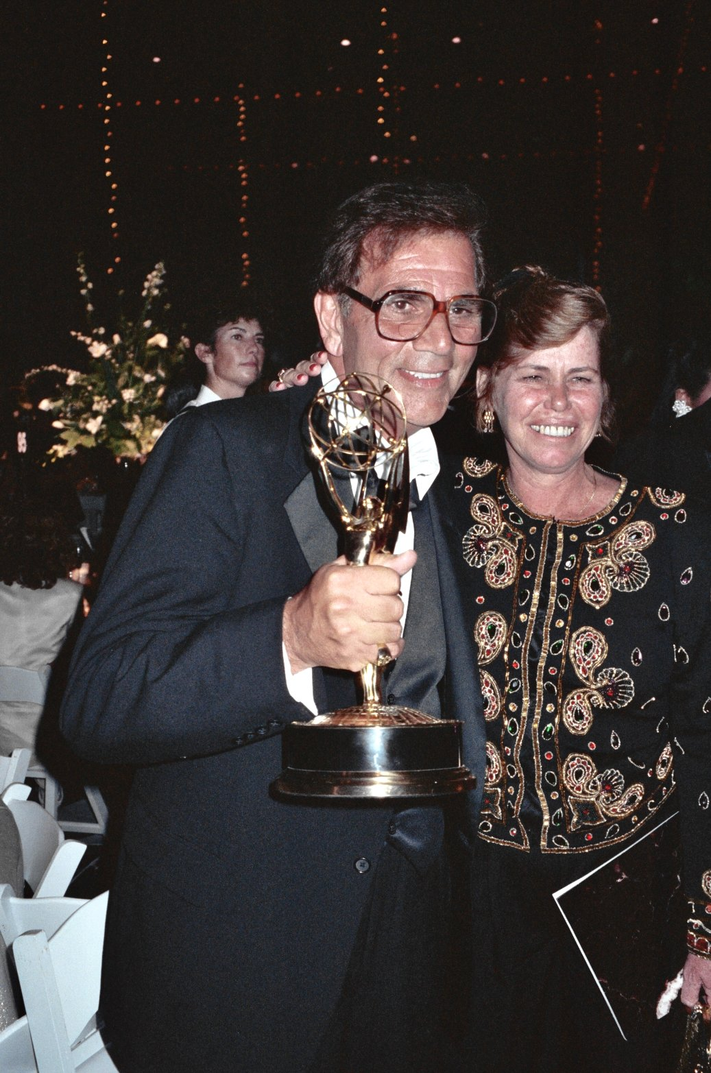 1990 Emmy Awards NOTE: Permission granted to copy, publish, broadcast or post any of my photos, but please credit "photo by Alan Light" if you can. Thanks. Scanned from the original 35MM film negative.